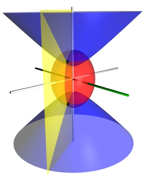 Degenerate version of Image:Prolate_spheroidal_coordinates.png. Shows the two-sheet hyperboloid nicely.